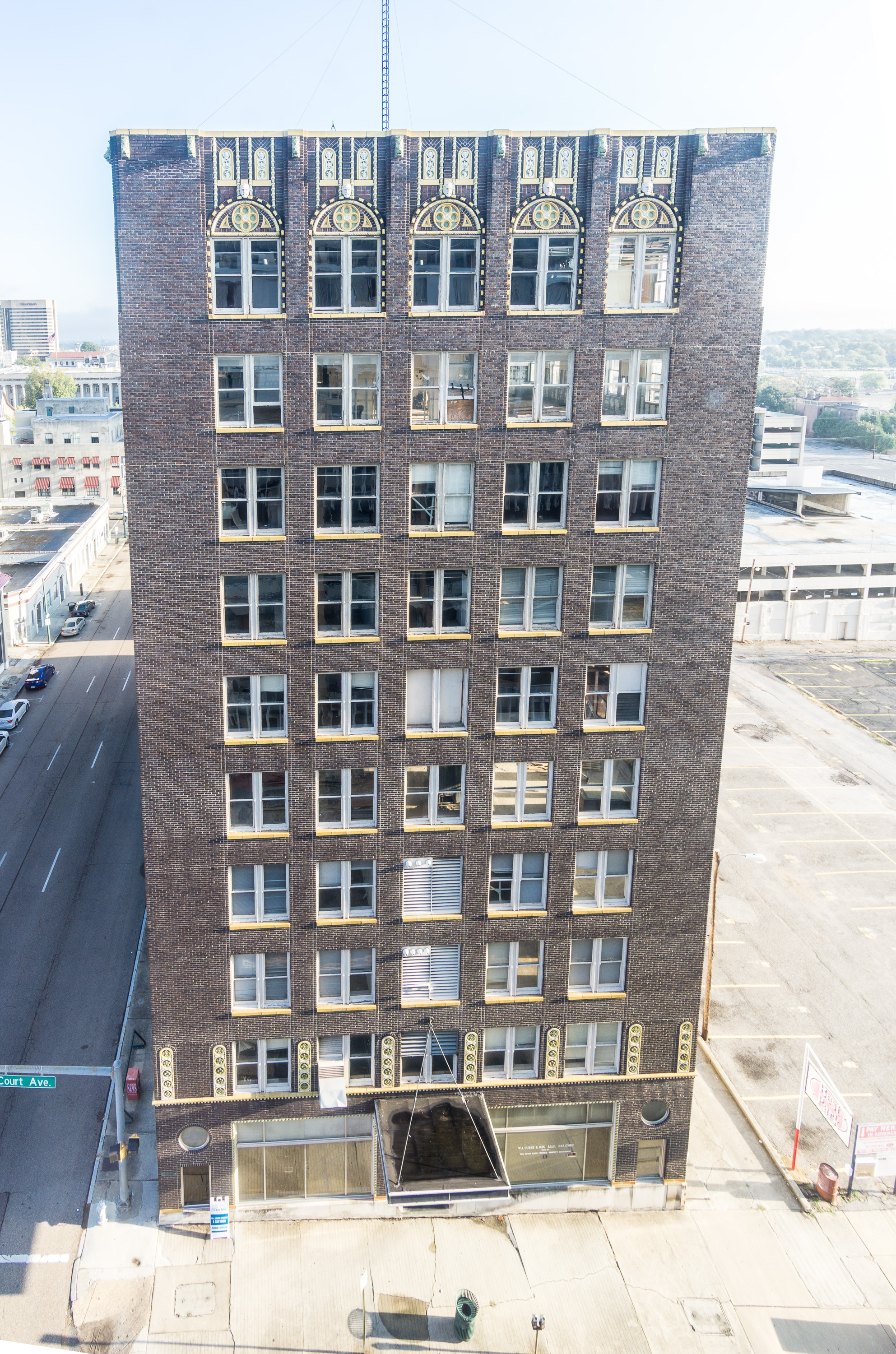 Dermon Building, Memphis: view from hotel across Court Avenue. NRHP ID 84003688